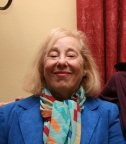 Rosabeth Moss Kanter, professor of business at Harvard Business School and author of books on management and sociology, with Susan Solomont, wife of Alan Solomont, US Ambassador to Spain and Andorra, in the US Embassy in Madrid.